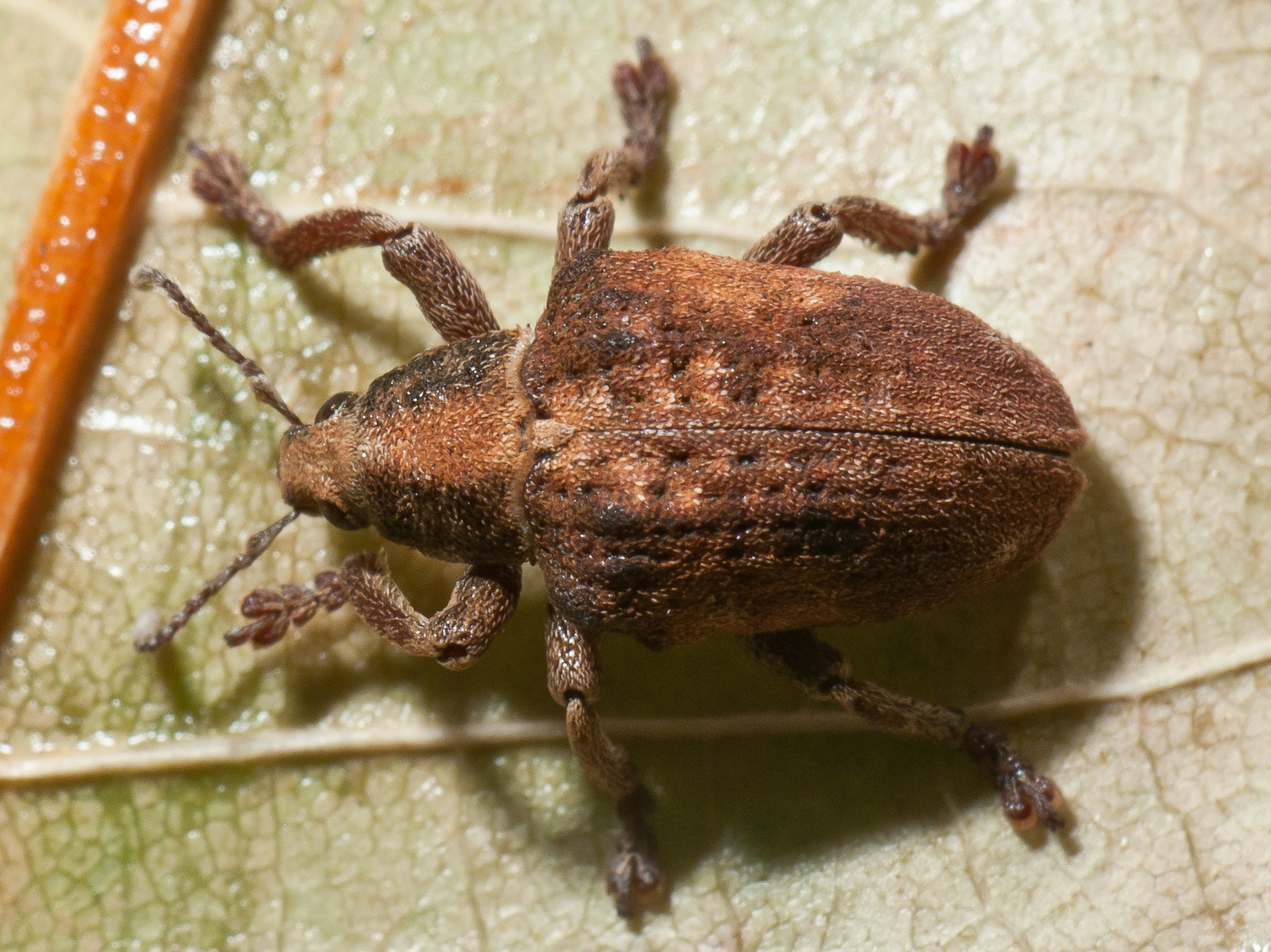 Gonipterus scutellatus in the beach of Coira, Portosín, Porto do Son, Galicia (Spain)